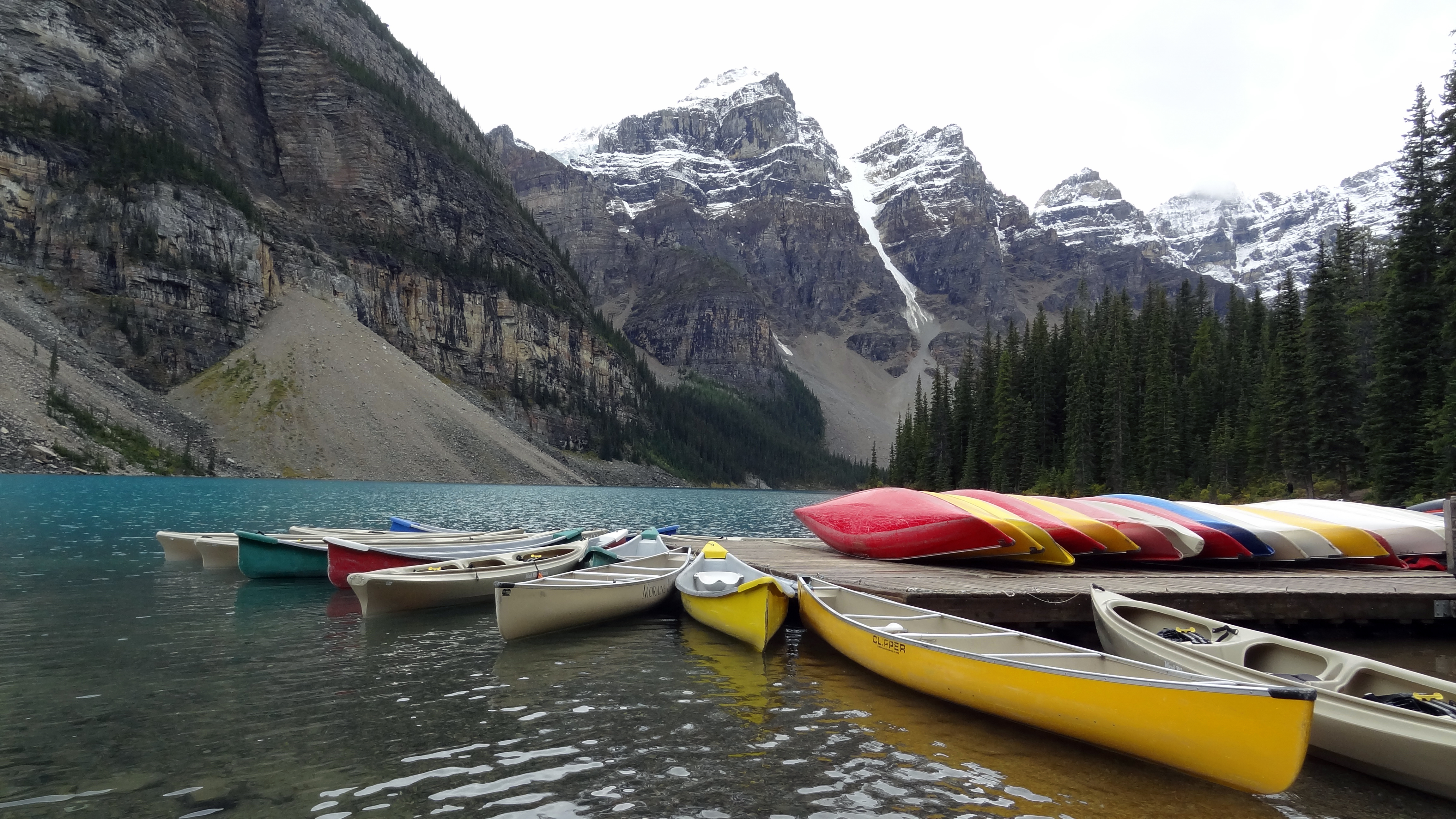 The canoe docks near the lodge at the north end of Moraine Lake in Alberta, Canada, 2015.